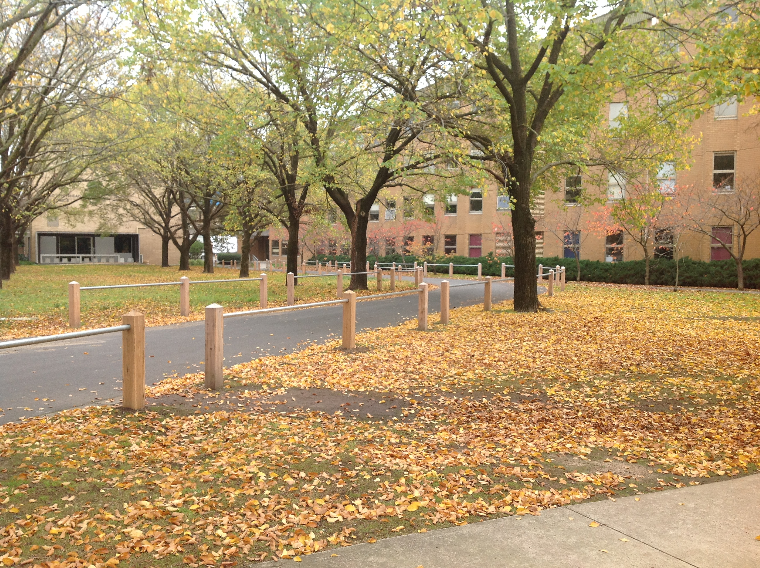 La Trobe Bundoora autumn 2013 Martin building